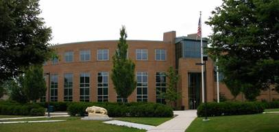 Penn State Harrisburg Library (Middletown, Pennsylvania, USA)